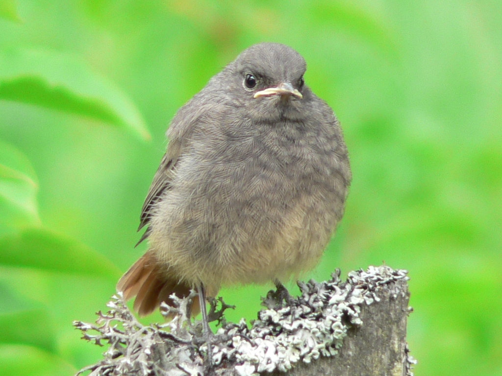 Black redstart juv. (phoenicurus ochruros) Author: Wojsyl